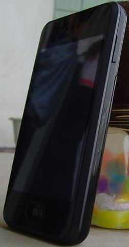 Meizu M8